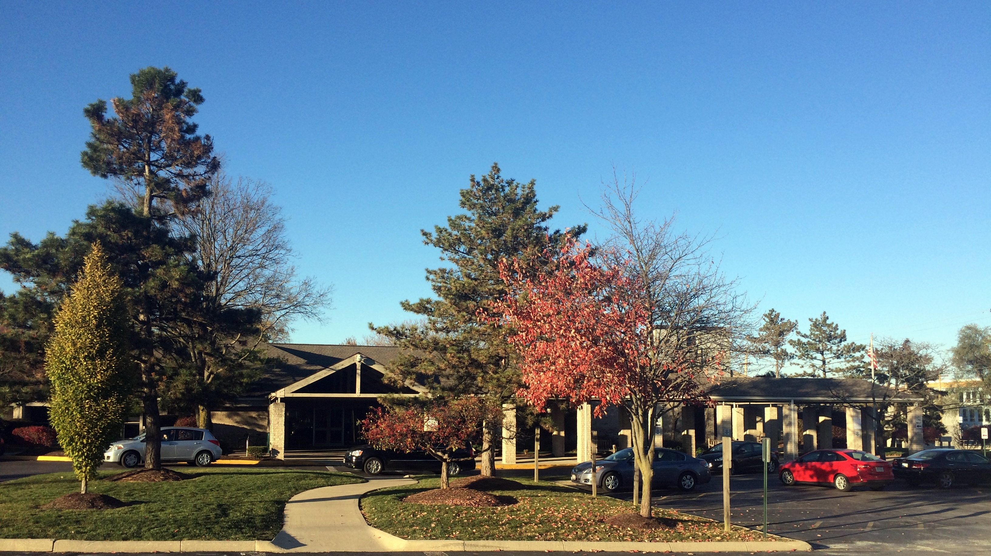 Dublin, Ohio Dublin Branch of the Columbus Metropolitan Library (Dublin, Ohio)